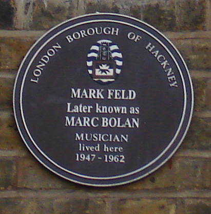 Plaque commemorating Marc Bolan's childhood home, 25 Stoke Newington Common, Hackney, London. 4 November 2005. Photographer: Fin Fahey.